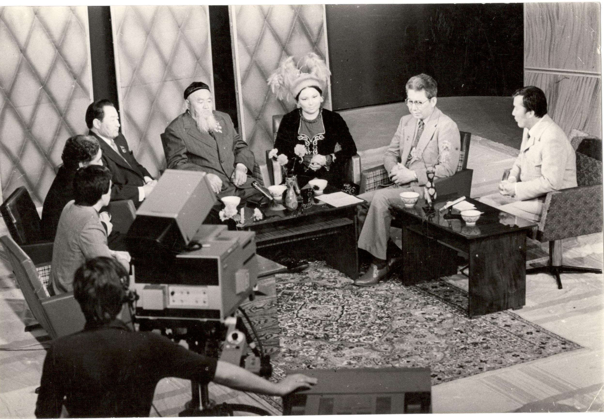 Roza Baglanova